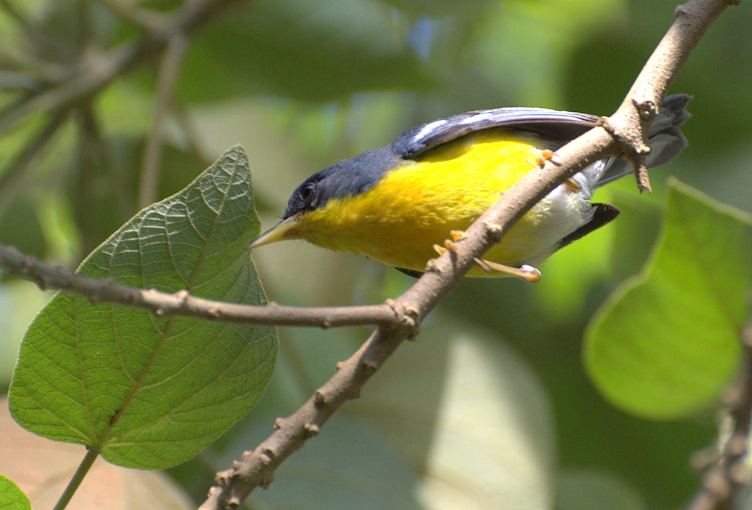 In the courtyard of my mother-in-law's house in the city of Registro, São Paulo state, Brazil